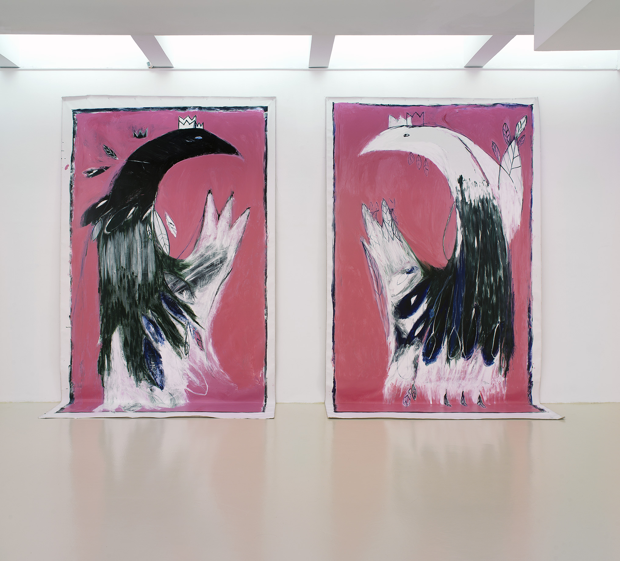 The Eagles2010, acrylic on canvas, 210×370 cm